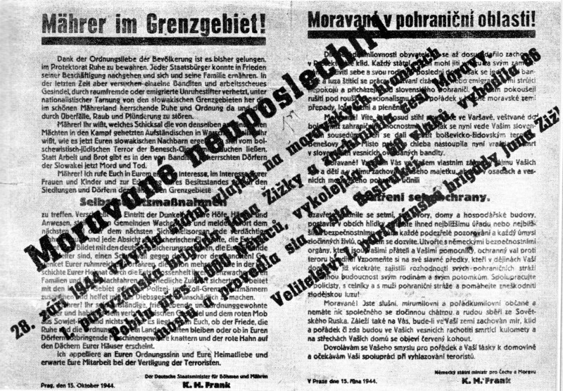 Partyzan response to the notice of 15 KH Frank October 1944